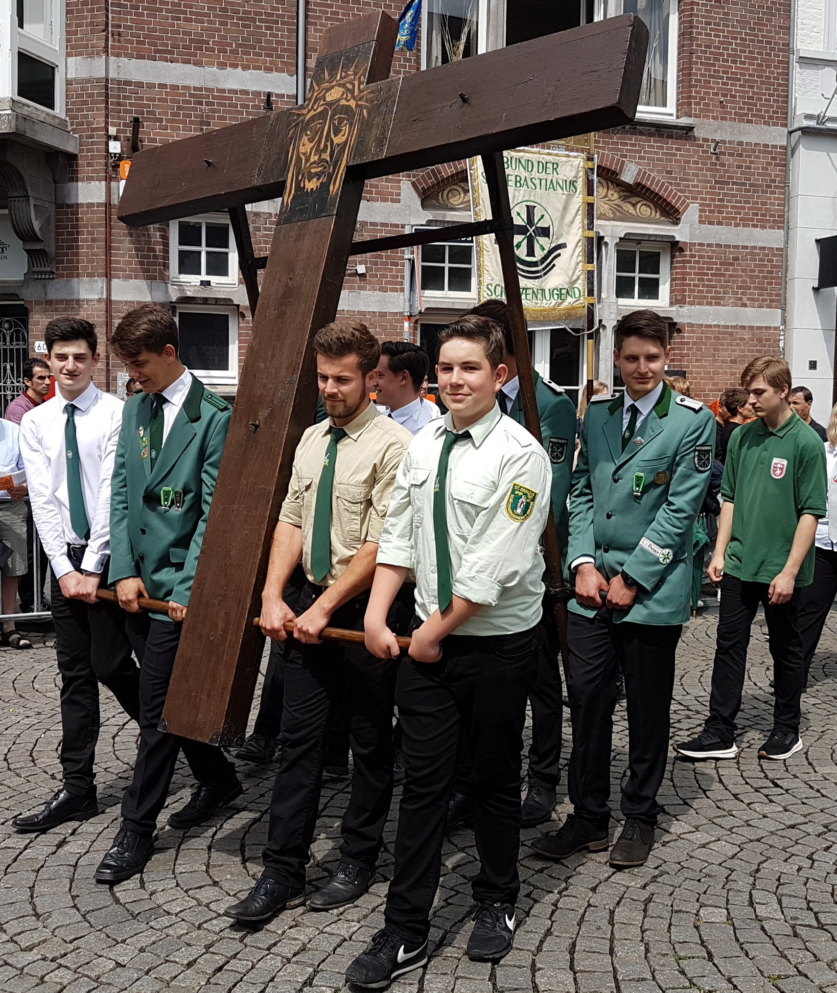 Young participants in a historic religious procession during the 2018 Heiligdomsvaart (Relics Pilgrimage) in Maastricht, Netherlands. The history of this seven-yearly catholic pilgrimage goes back to the Middle Ages. The first 'modern' version took place in 1874. On both Sundays of the 10-day festival, a procession is held in which the main relics and other devotional objects are exhibited. This photo was taken in Stationsstraat during the (first) procession on Sunday 27 May 2018. This particular group represents the Bund der St. Sebastianus Schützenjugend (BdSJ) from Merzenich/Morschenich (Düren), Germany. The participants carry the Aachen Peace Cross (Aachener Friedenskreuz).